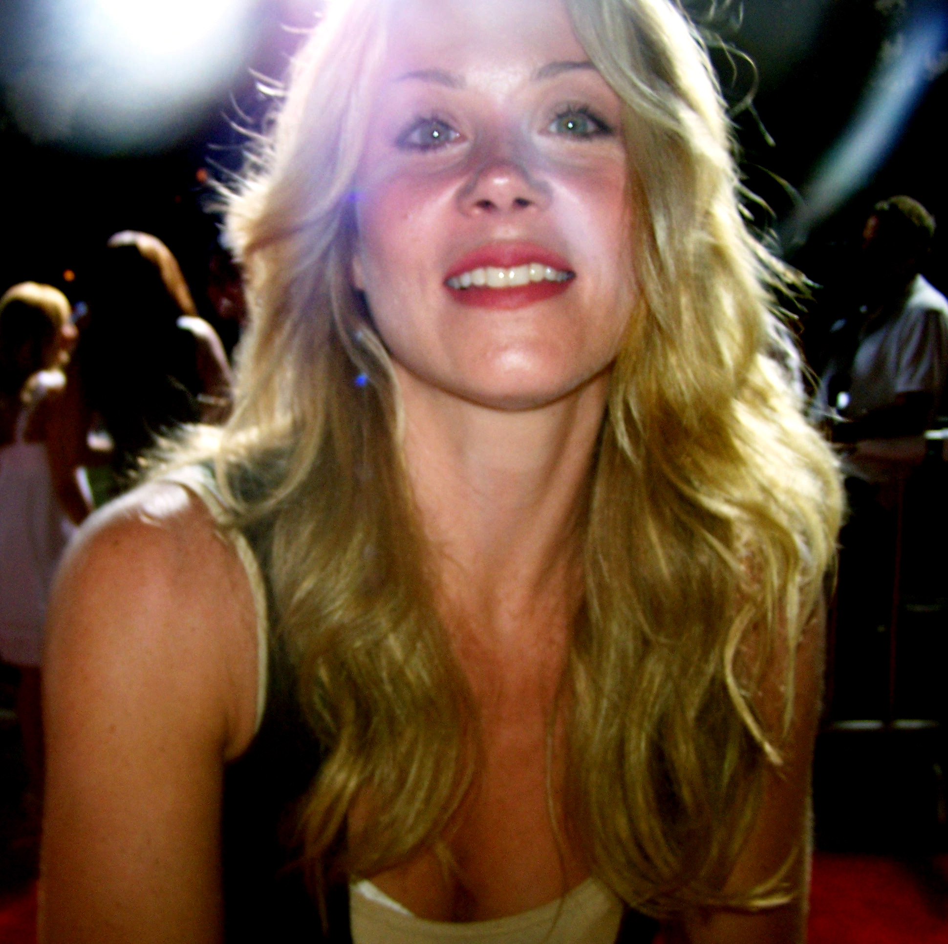 American actress Christina Applegate.